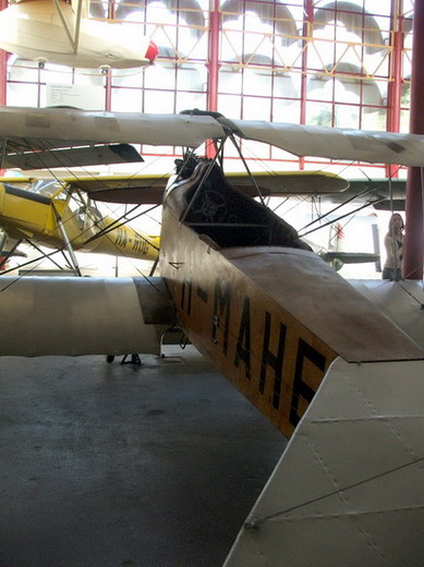 Hansa-Brandenburg B.I exhibited at the Budapest Aviation Museum